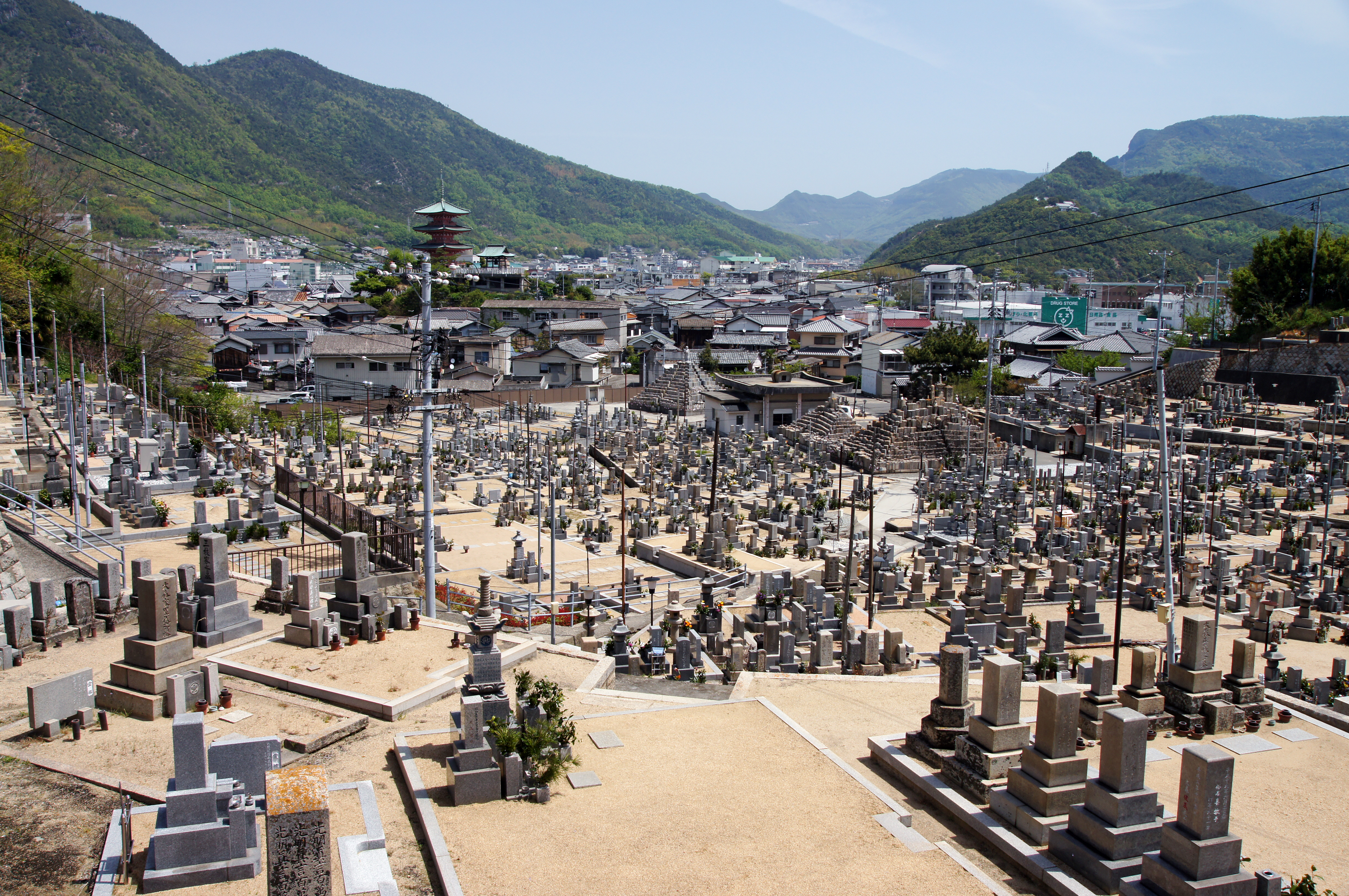 Saiko-ji in Shodo Island, Tonosho, Kagawa Prefecture, Japan